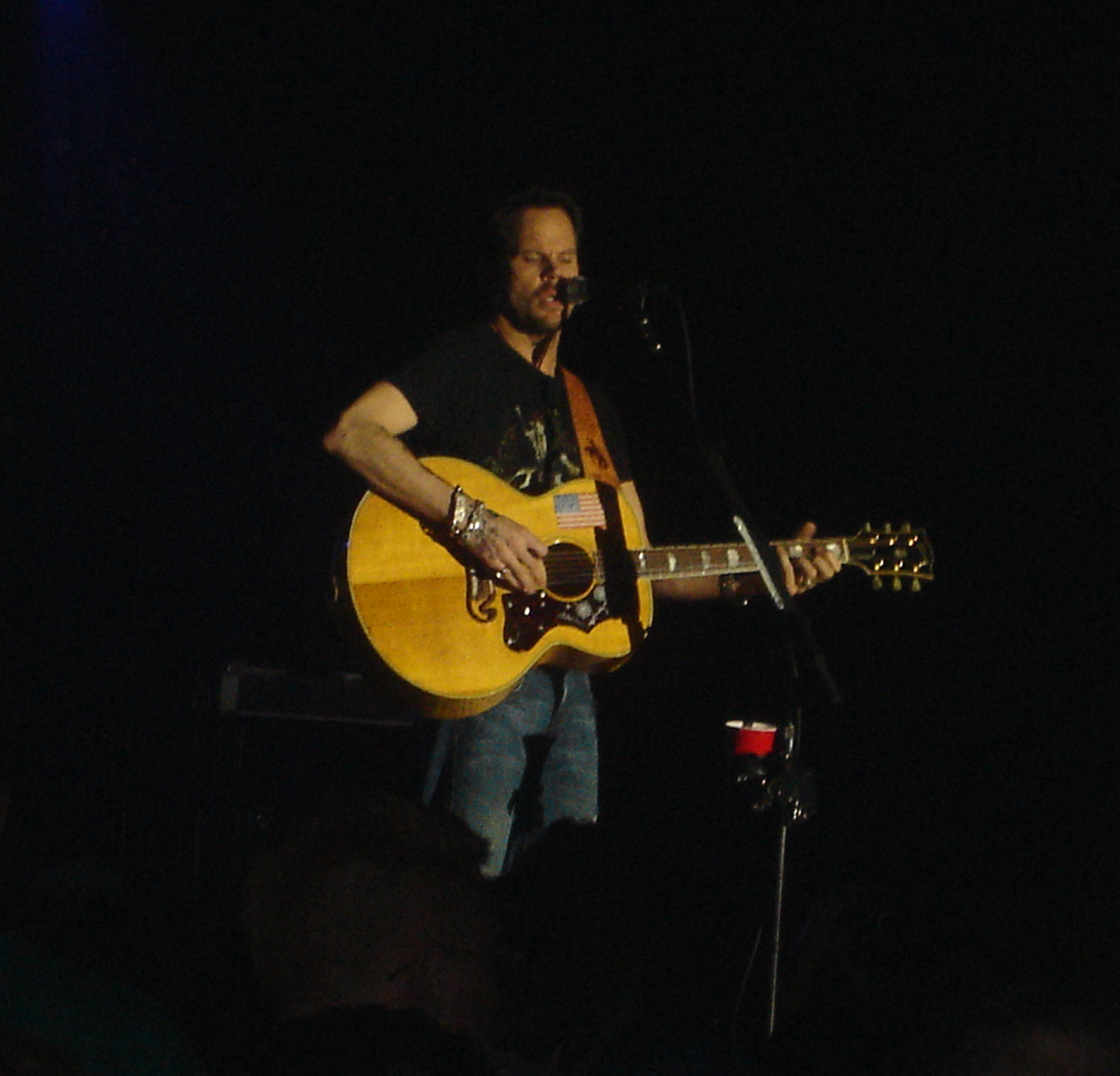 Gary Allan live at the Executive Inn in Paducah, KY.